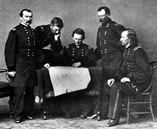 Staff of General Sheridan Sheridan, Forsyth, Merritt, Crook, Custer